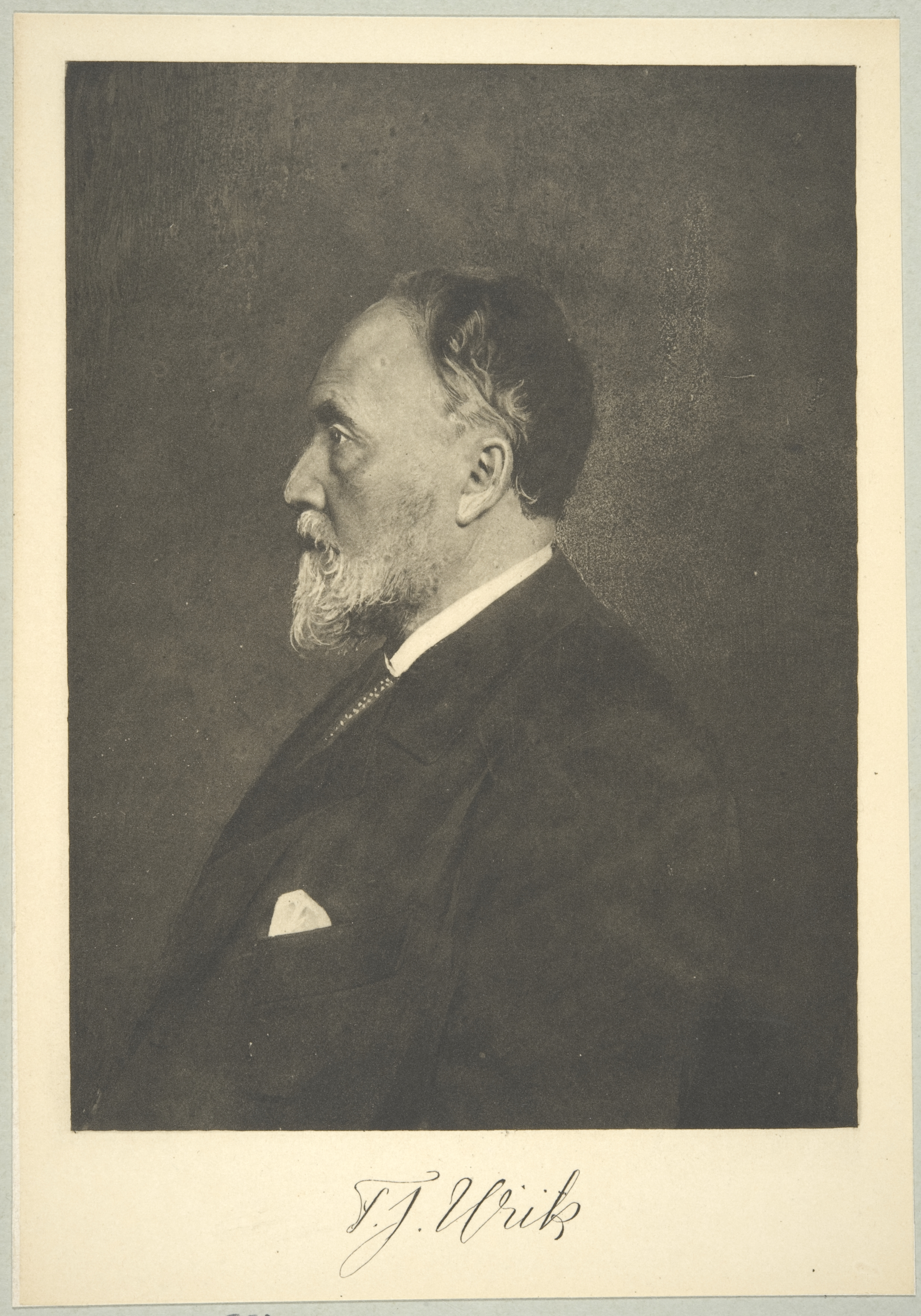 Fredrik Johan Wiik (1839-1909) from "Minnestal över professoren Johan Fredrik Wiik" 1911 by Wilhelm Ramsay (1865-1928)